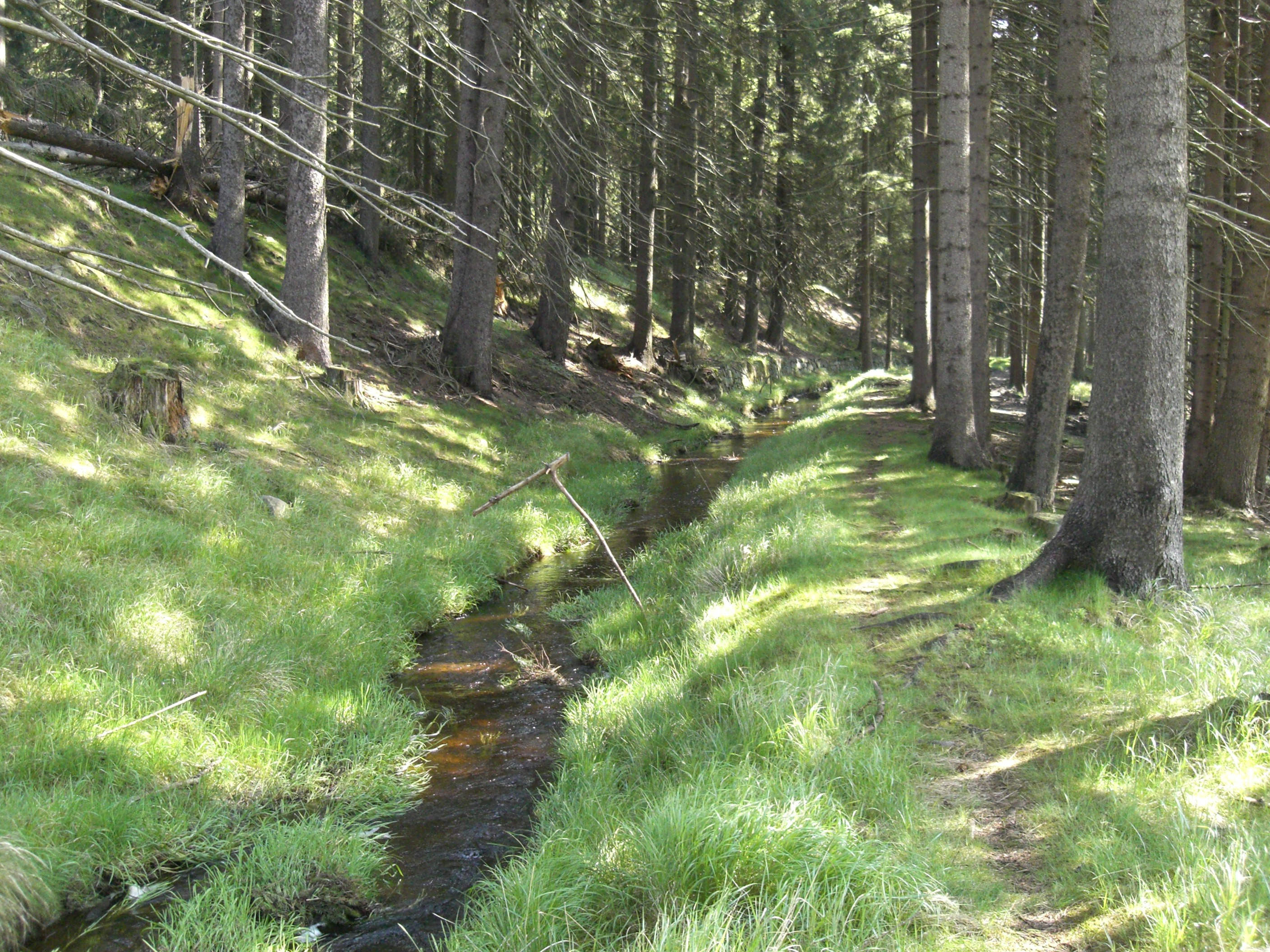 Dlouhá stoka - water canal in Slavkovský les, Czech Republic. 50°2'11.06"N,12°41'28.93"E